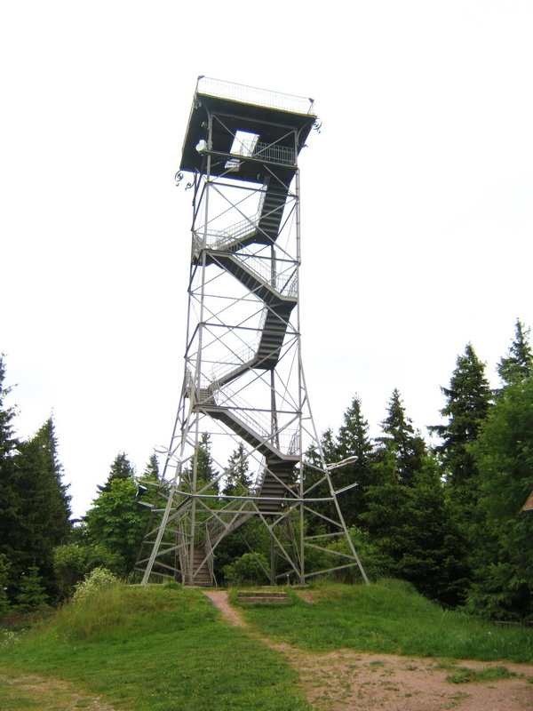 The Carl-Alexander-Turm on the Ringberg, Thuringia, Germany